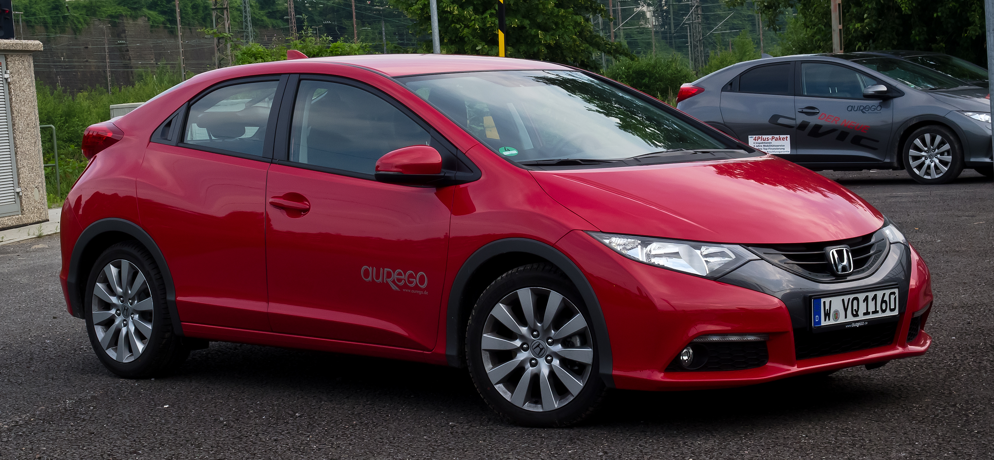 Honda Civic 2.2 i-DTEC Sport (IX)